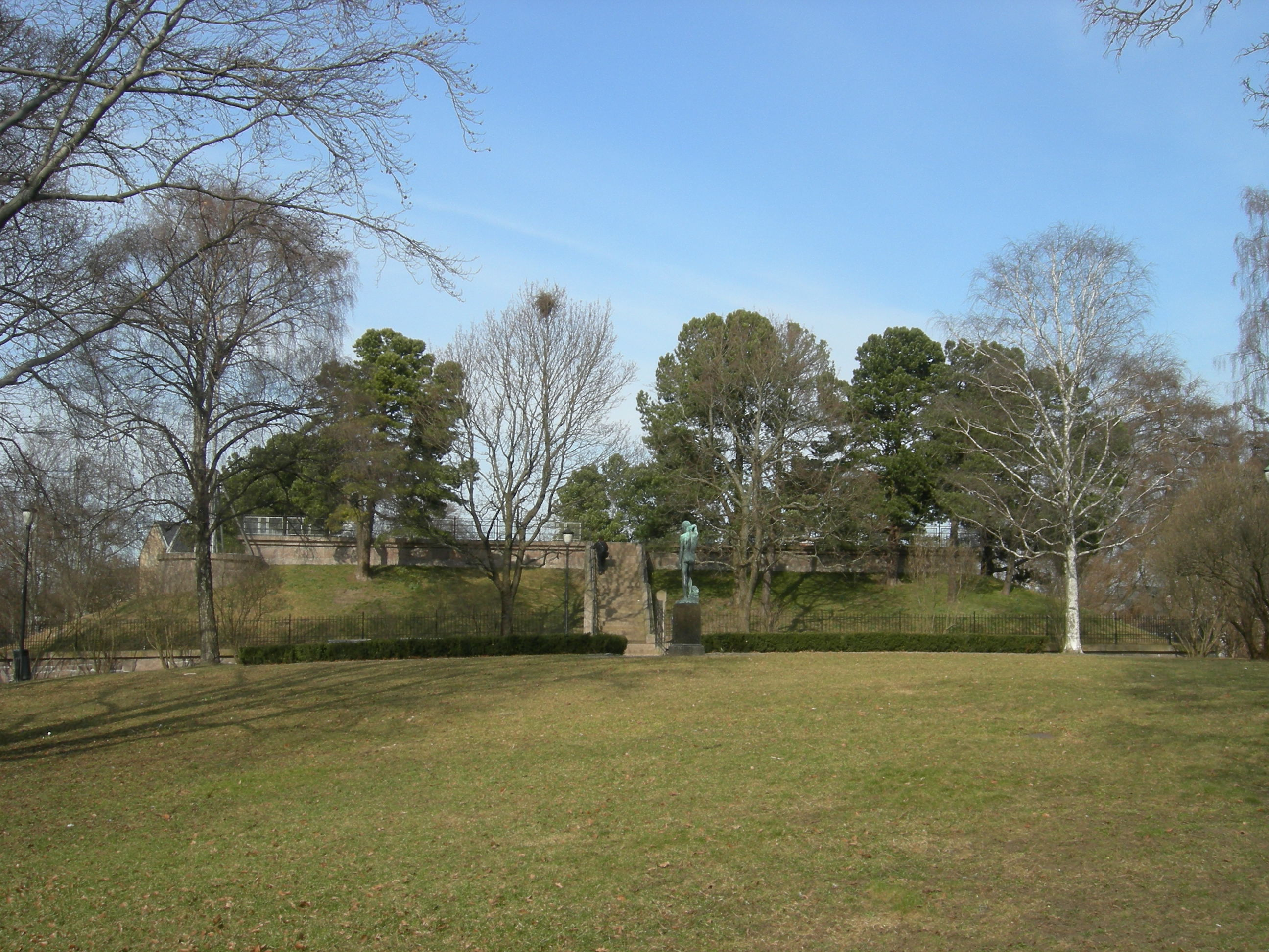 Kampen park, the water basin seen from south, Oslo, Norway